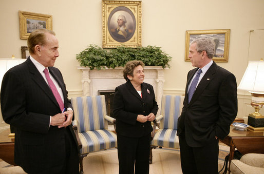 President George W. Bush meets with former U.S. Sen. Bob Dole and former U.S. Health and Human Services Secretary Donna Shalala in the Oval Office, Wednesday, March 7, 2007, who will co-chair the President’s Commission on Care for America’s Returning Wounded Warriors. White House photo by Eric Drape